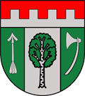 Coat of arms of Berkoth, Germany